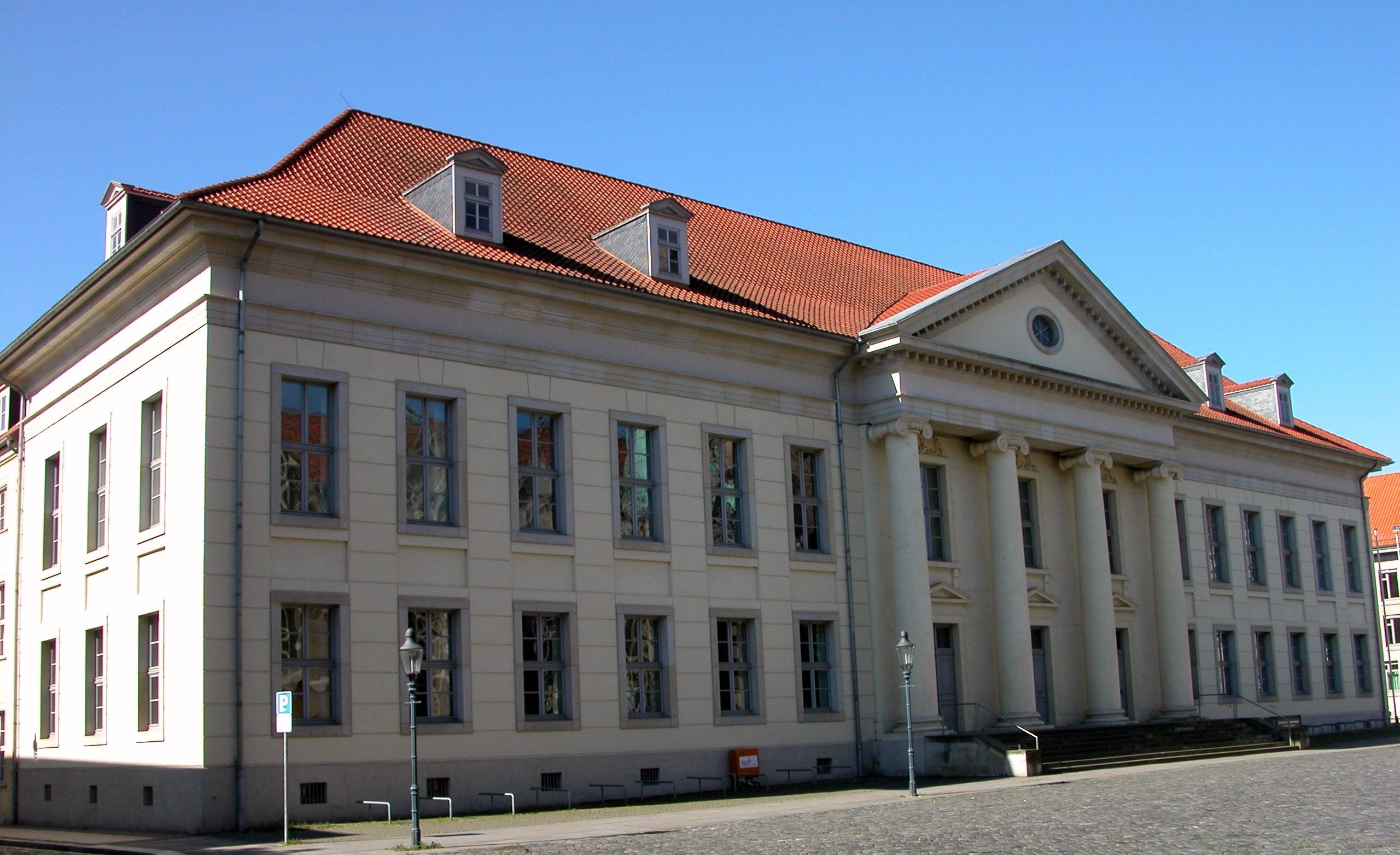 Braunschweig, Germany: Brunswick Parliament.